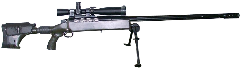 Canadian Forces MacMillan TAC-50 with a Leupold Mark 4-16x40mm LR/T M1 Riflescope optical sight mounted, photographed at the Armed Forces display at the Calgary Stampede on 10 July 2006. This is the actual weapon Corporal Rob Furlong of the Princess Patricia's Canadian Light Infantry (PPCLI) used to kill an enemy combatant from 2,430 meters.